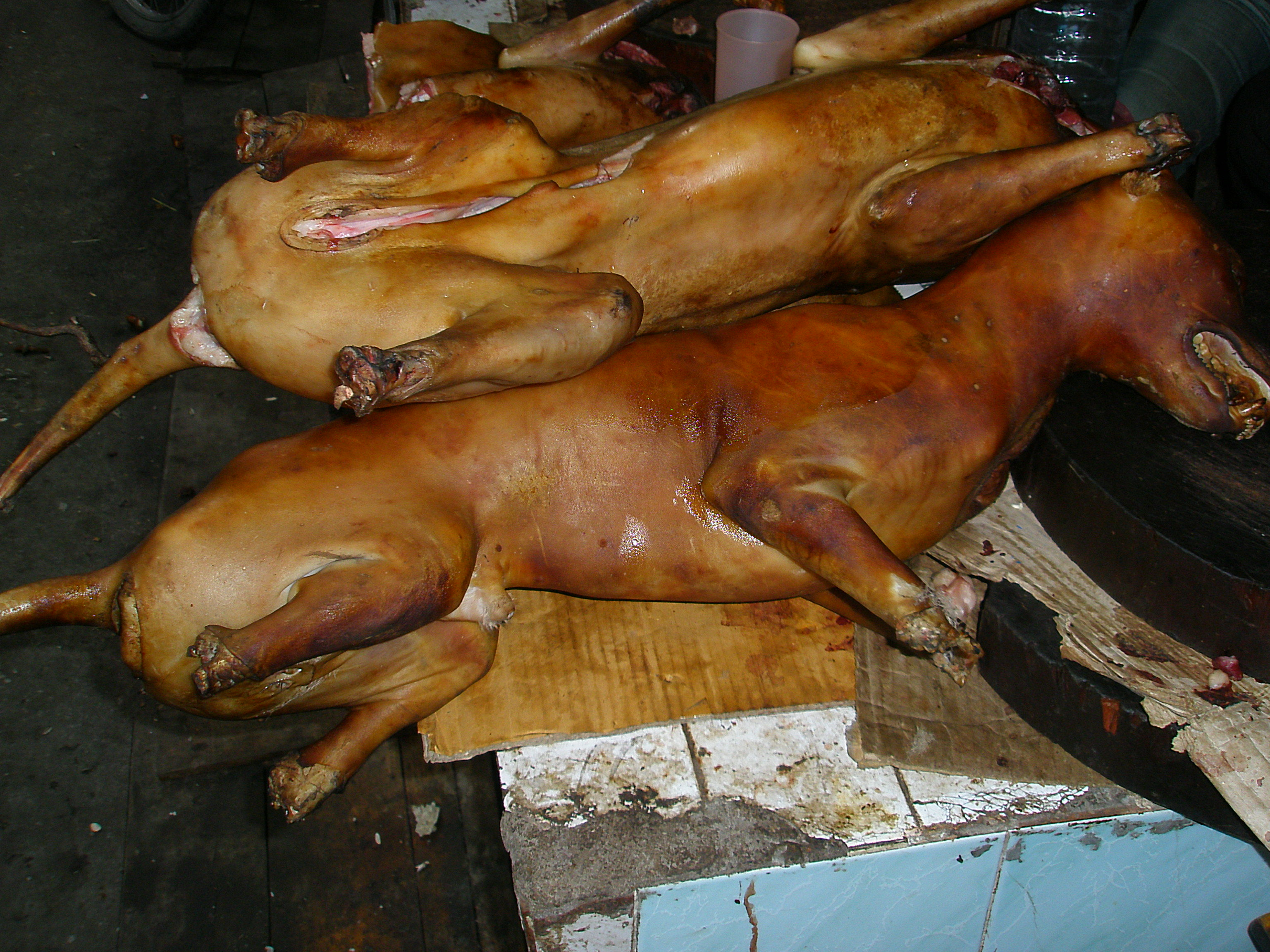 Image depicting a Hanoi street vendor's table containing several dogs which have been cooked and roasted for human consumption. The animals have the lower portion of their legs removed and have been disemboweled. The skin is a golden brown from cooking, much like a roasted fowl or swine. In Hanoi, dogs used as food stuffs are known as "Thịt chó". The photograph was taken at a market in Vietnam. Original description: "Thit ChoHanoi Vietnam Market: Yes, these are dogs ... for eating."